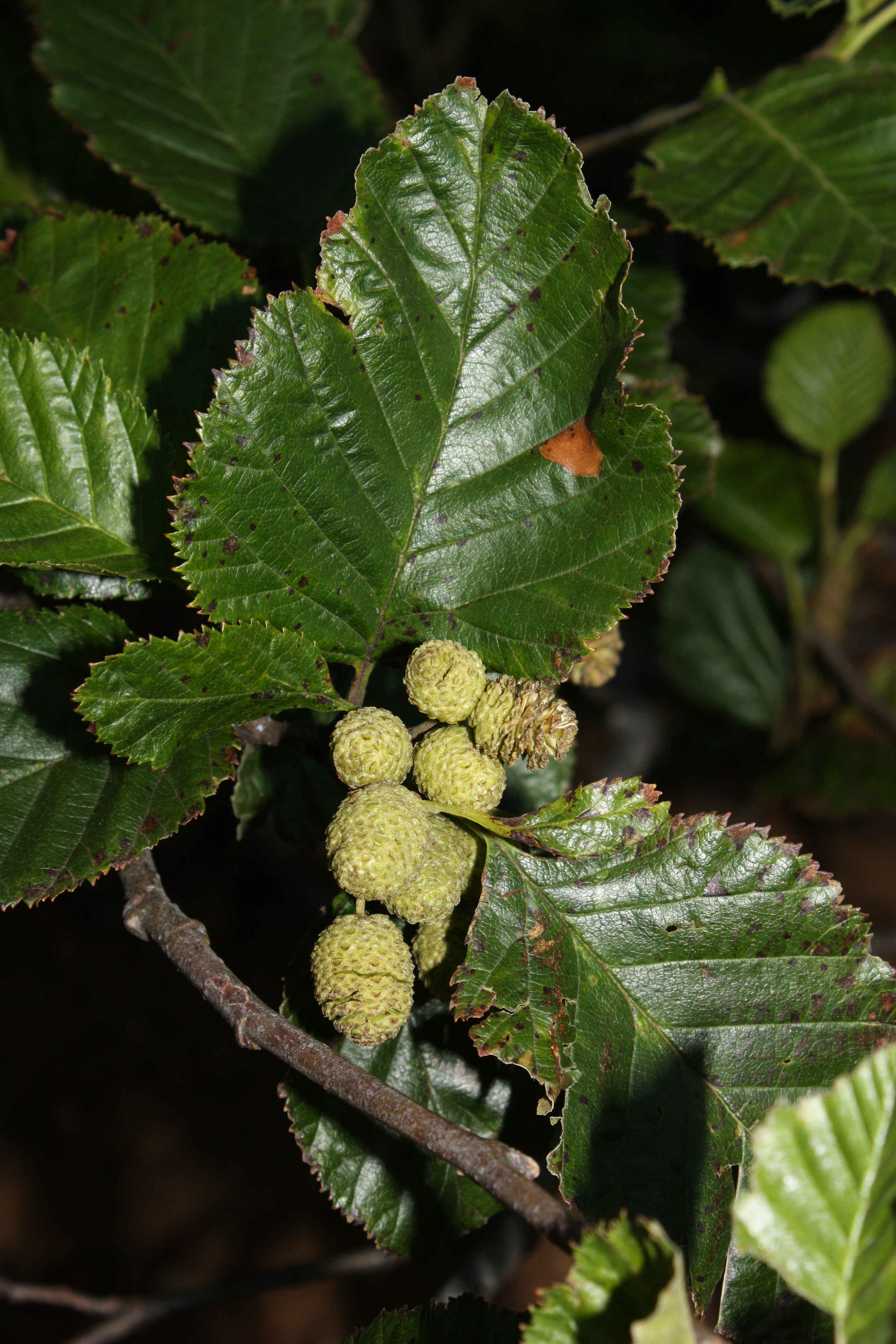 Sitka Alder, Mountain Alder